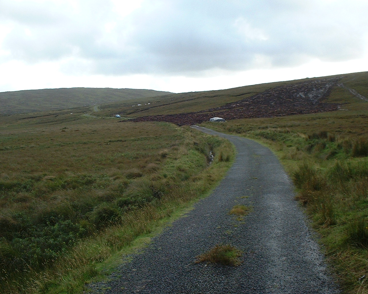 a bog slide in Co Donegal on the road to the deserted village of Port